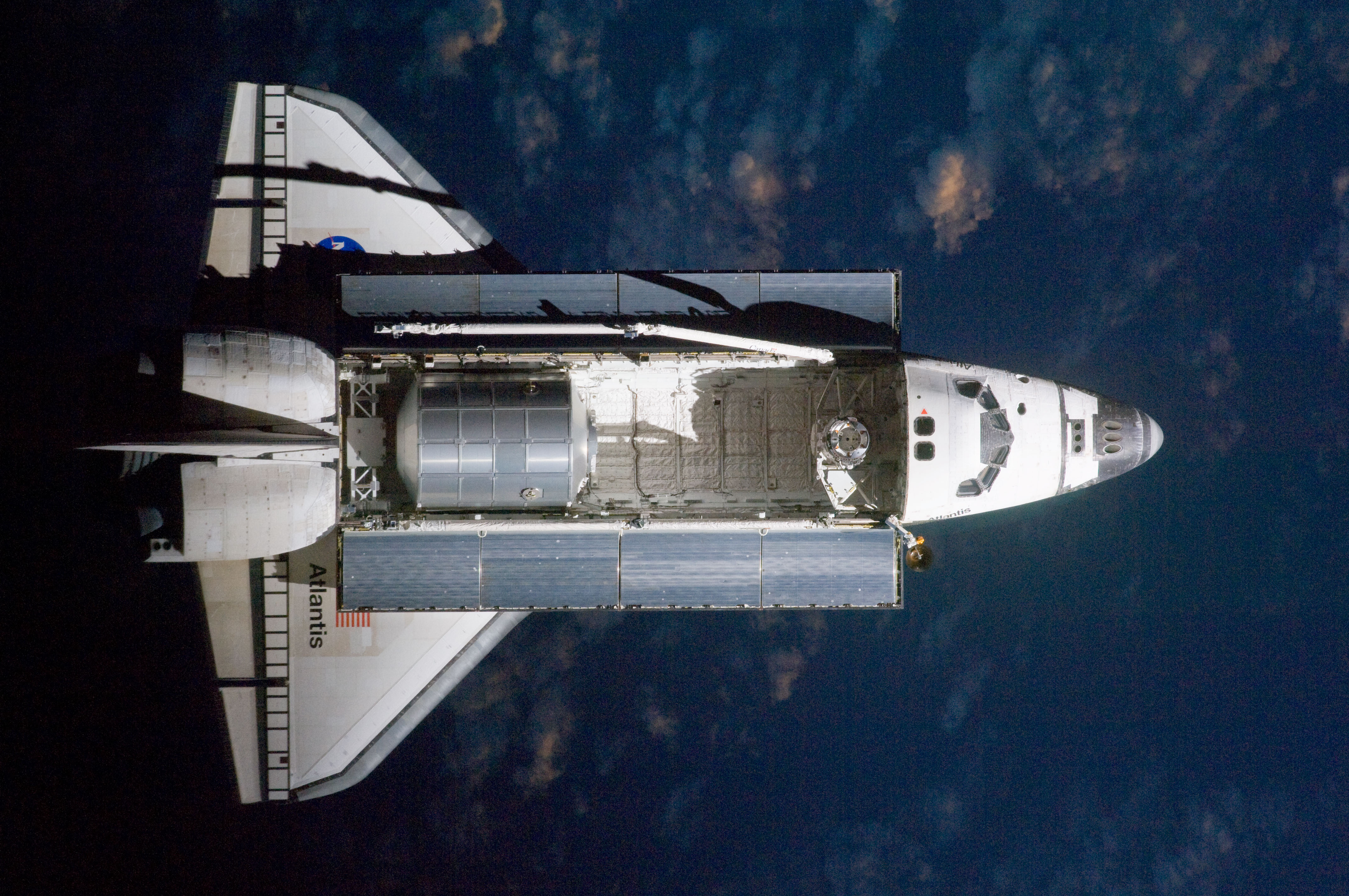 A nadir view of the space shuttle Atlantis and its payload was provided by one of a series of images showing various parts of the shuttle in Earth orbit. Seen at the rear of the cargo bay is the Raffaello multi-purpose logistics module, packed with supplies and spare parts for the International Space Station. The series was photographed by one of three crewmembers -- half the station crew -- who were equipped with still cameras on the orbiting outpost as the shuttle "posed" for photos and visual surveys and performed a back-flip for the rendezvous pitch maneuver (RPM). A 400 millimeter lens was used to capture this particular series of images.